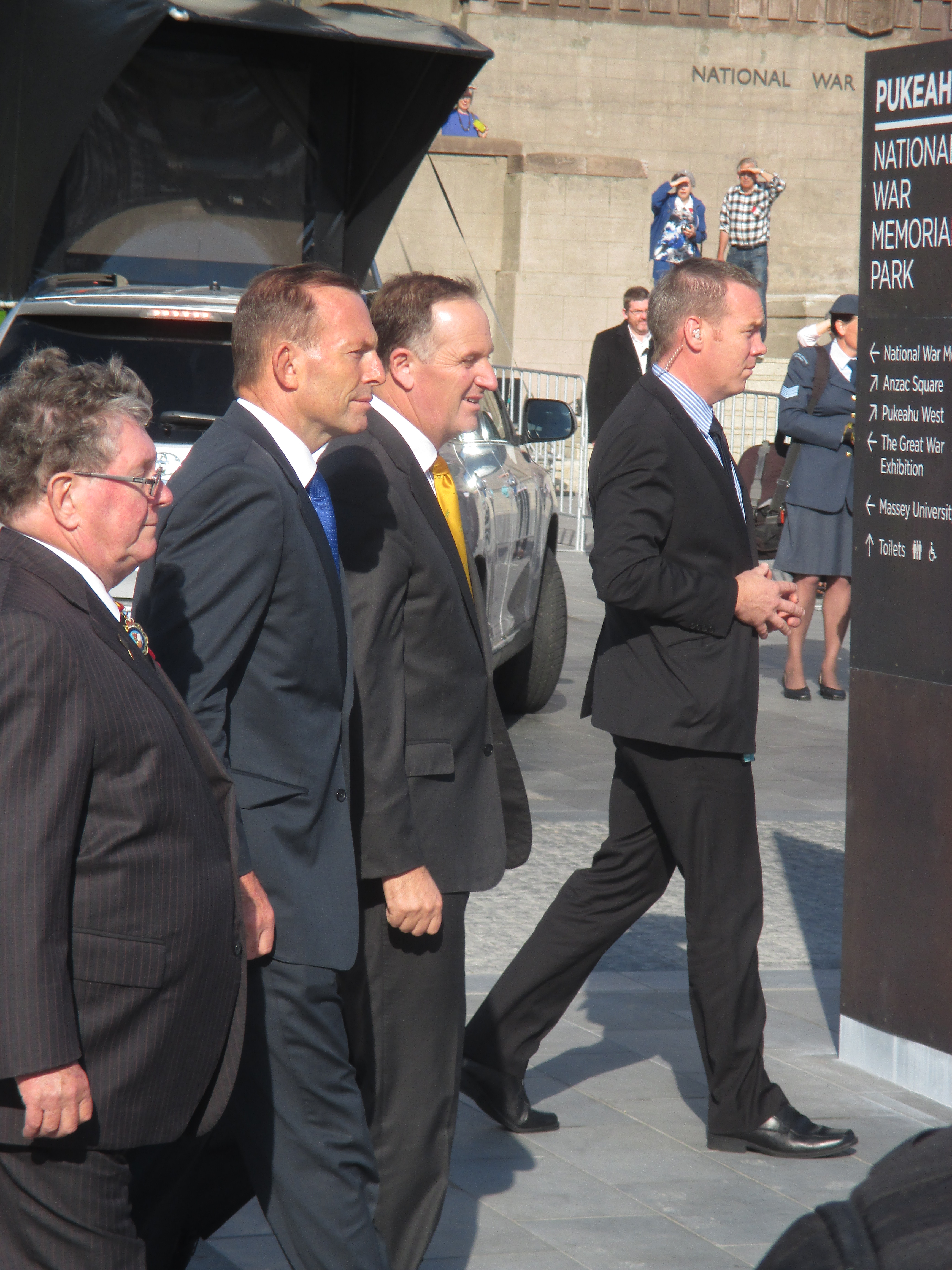 Tony Abbott and John Key at the Dedication of the Australian Memorial at Pukeahu National War Memorial Park, Wellington, New Zealand on 20 April 2015.